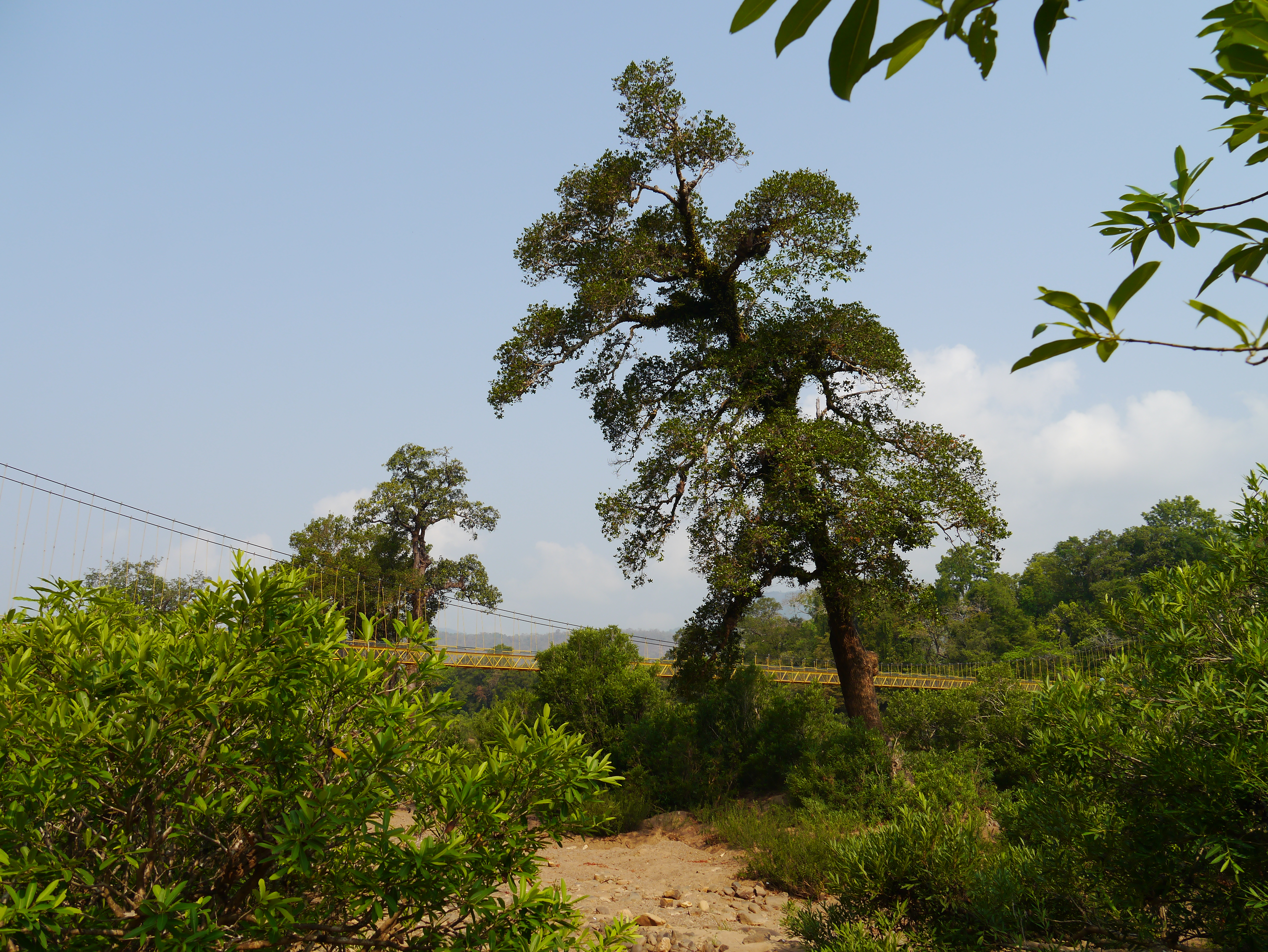 Calophyllum apetalum